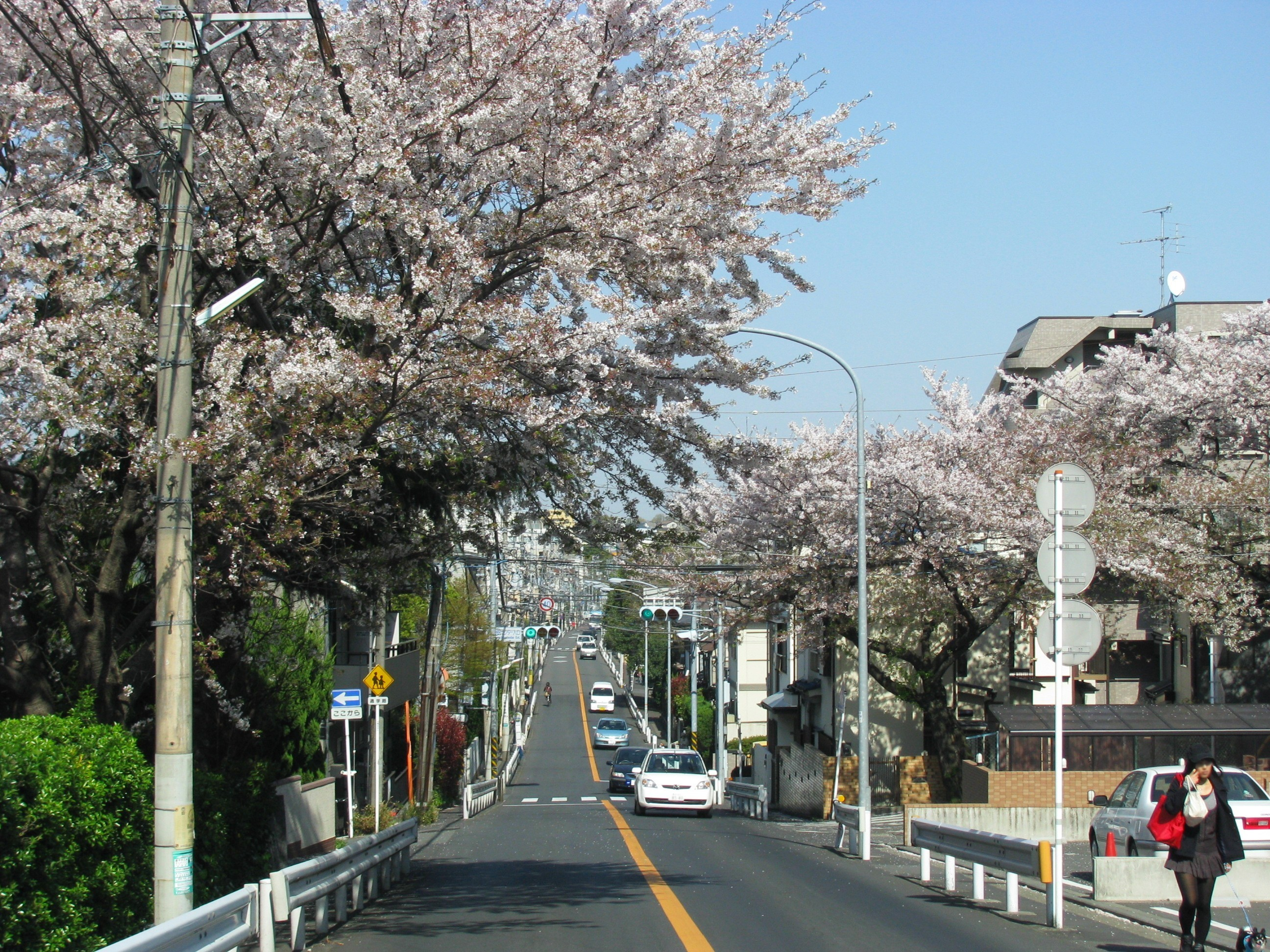 The Yokohama city road Route 85. This located is in Kōhoku, Yokohama, Kanagawa, Japan.